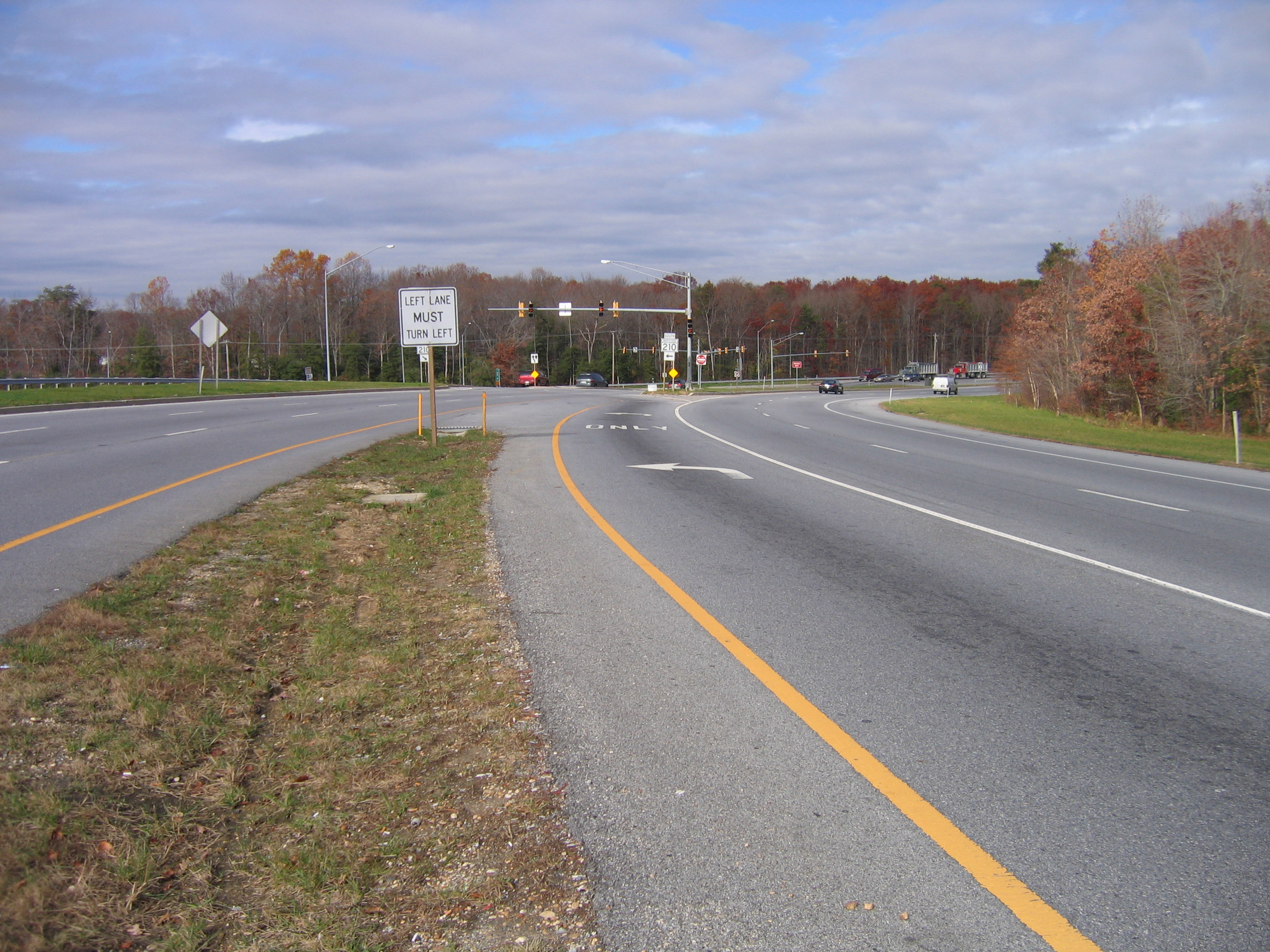 Continuous flow intersection at MD 228 (Berry Road) and MD 210 (Indian Head Highway), Accokeek, MD, USA